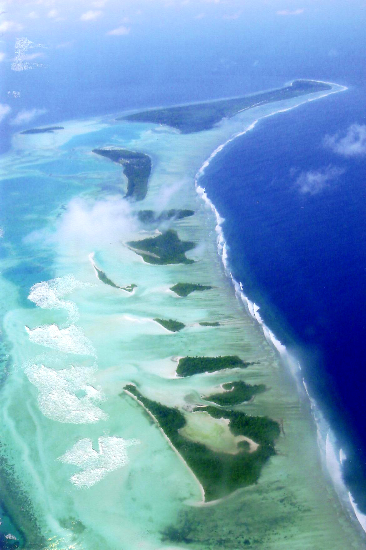 author: a_robustus (photo taken by uploader)